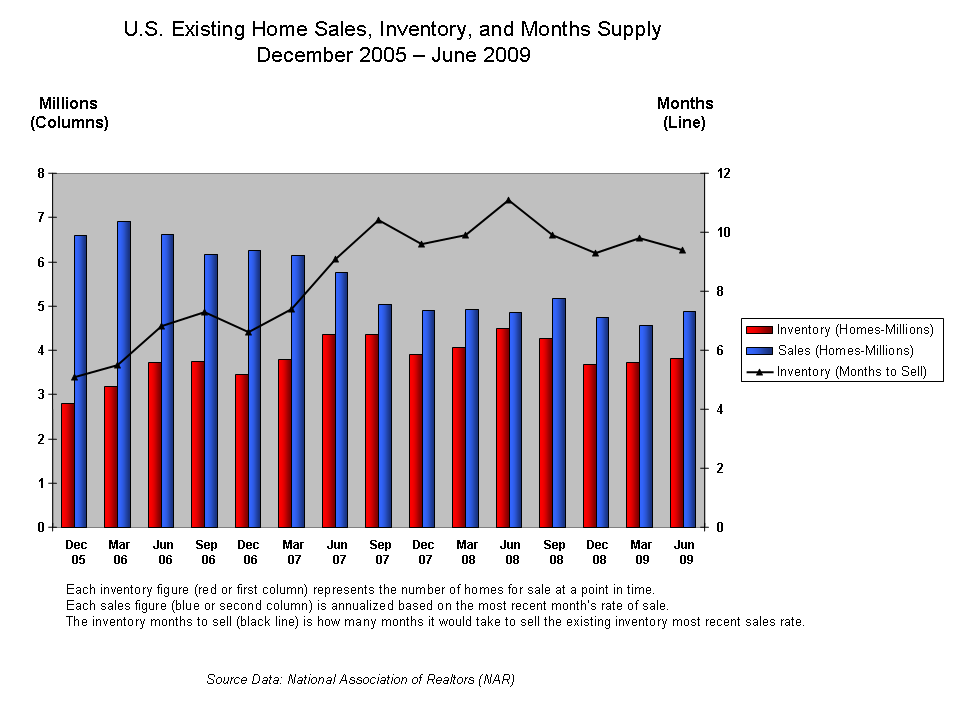 Existing Home Sales, Inventory and Months to Sell